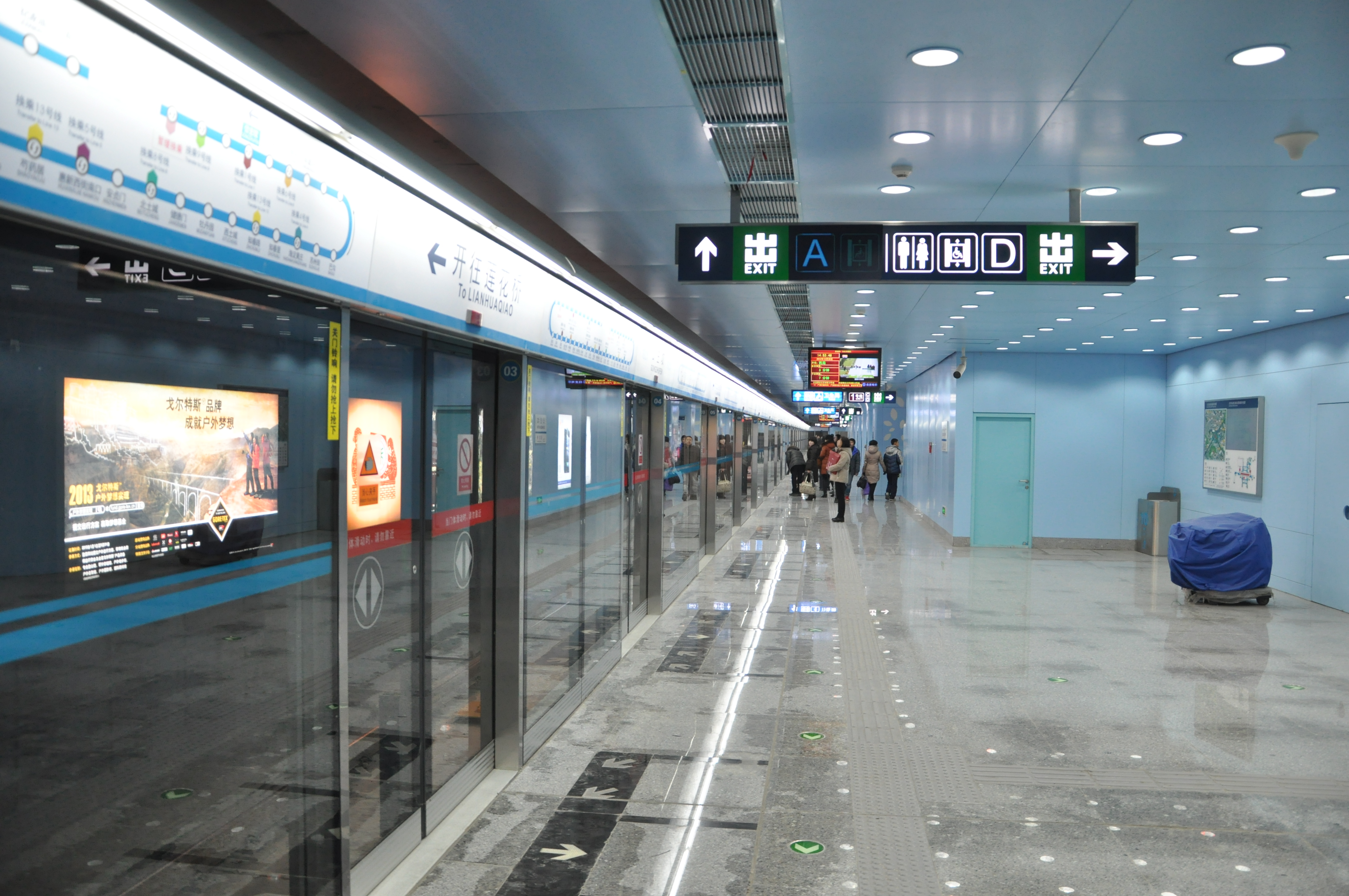 Platform of Gongzhufen station, Line 10, Beijing Subway.